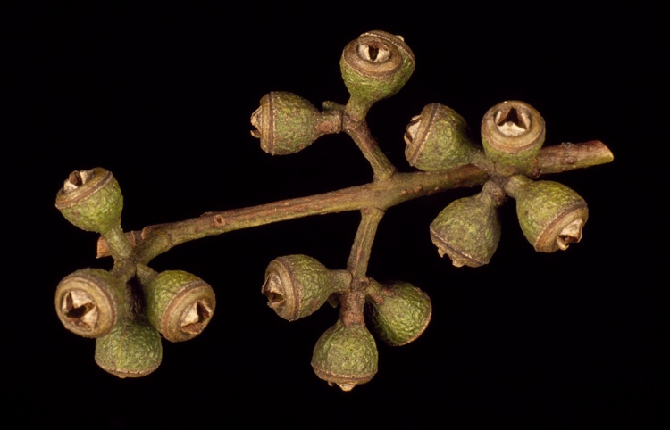 Fruit of Eucalyptus bidgesiana